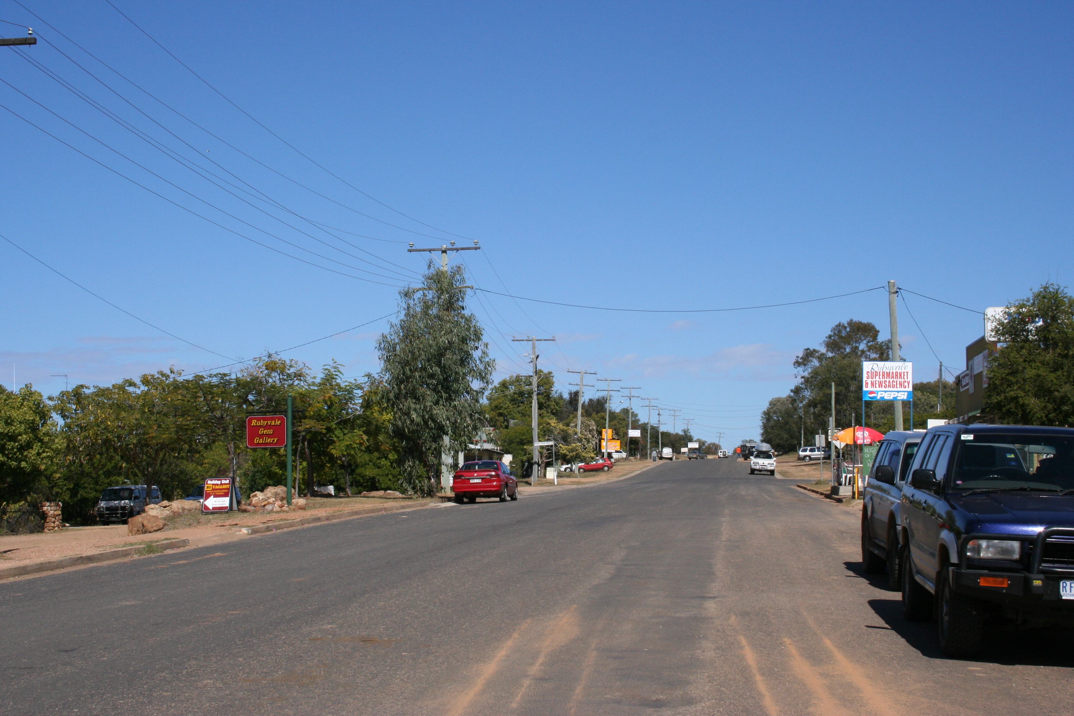 Main street in Rubyvale, outback Queensland, Australia